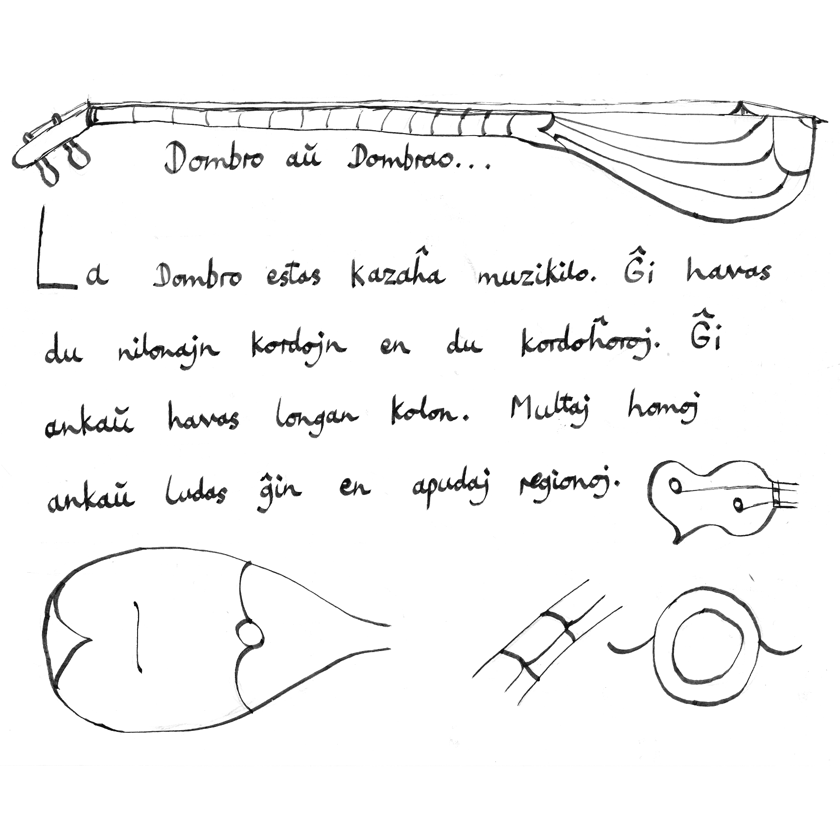 Dombra picture in Esperanto.